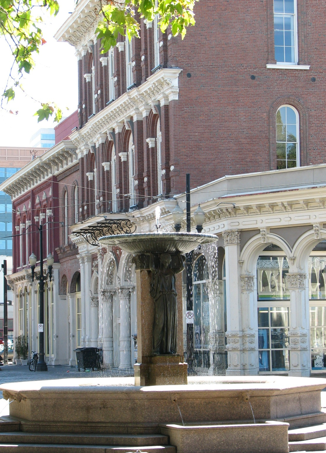 Skidmore Fountain and, behind, the New Market Block along SW First Avenue in the Skidmore/Old Town Historic District, a National Historic Landmark district in Portland, Oregon, United States.